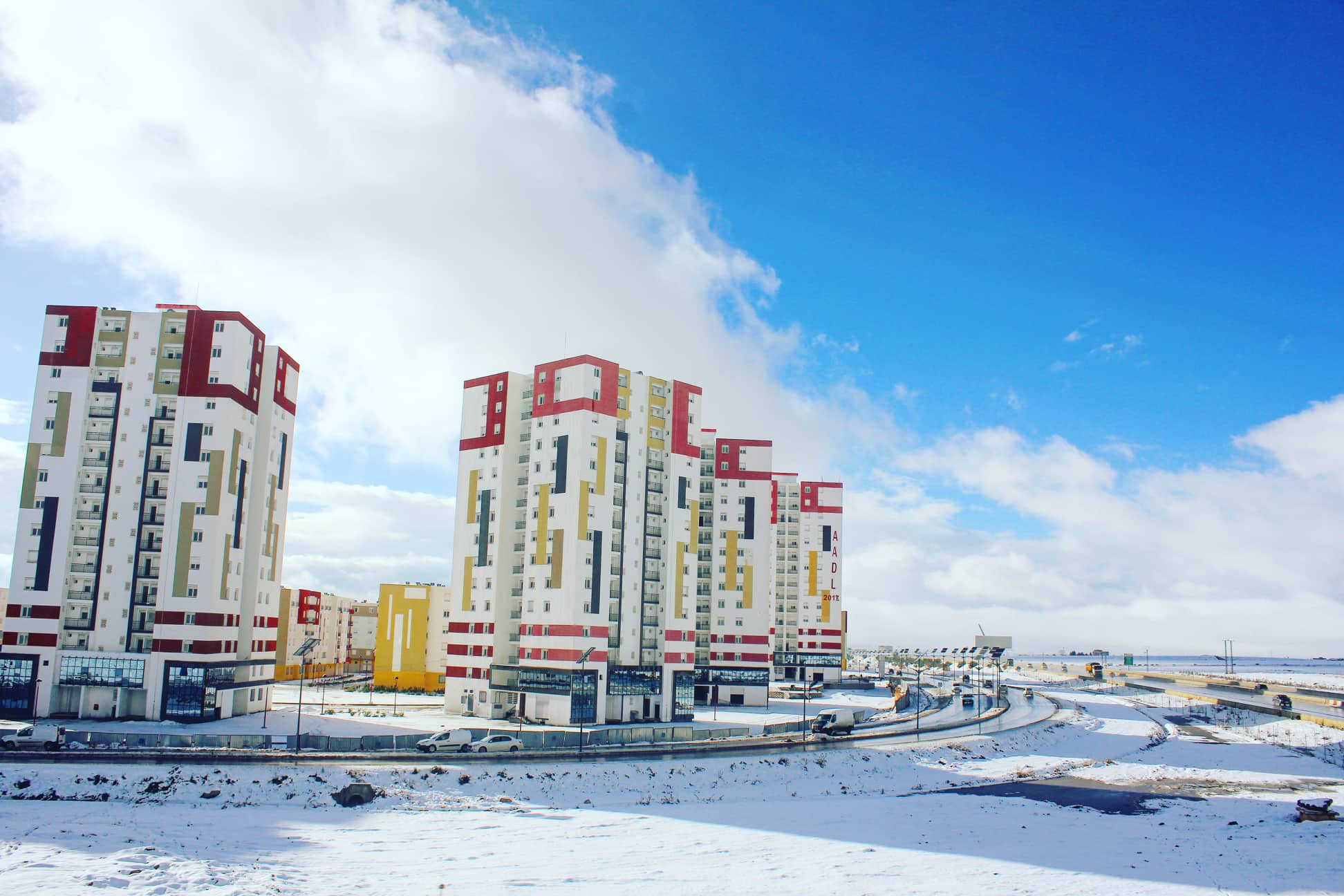 These are Some pictures of my city Back when it snowed back in January.